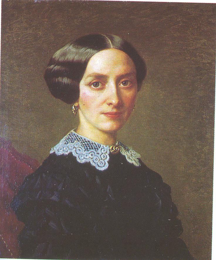 Johan Per Södermark's oil painting of Kateřina Smetanová, 1st wife of Bedřich Smetana, 1858